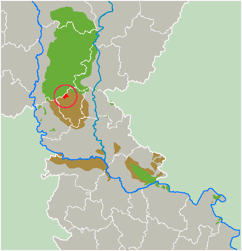 LEGEND: Green - Sands, Red - Selected Sand, Brown - Loess. Српски (ћирилица): Мапа је због потребе приказивања садржаја мала и није у потпуности прецизна. Употребљени извори су педолошке карте и мапе заштићених подручја Завода за заштиту природе, као и рад др Млађена Јовановића Пешчаре у Србији 2014, Природно-математички факултет Универзитета у Новом Саду.